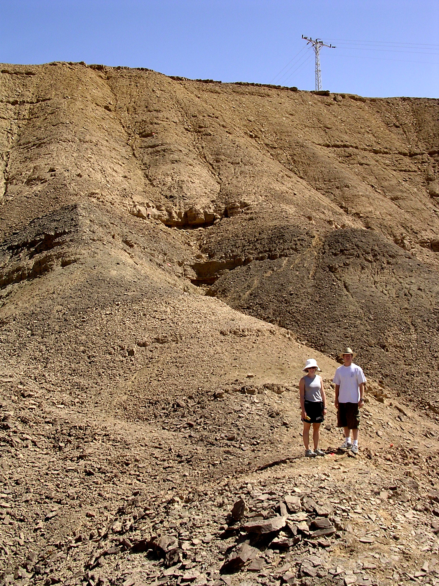 Middle and Upper Triassic shallow marine sequence, Makhtesh Ramon, Israel.